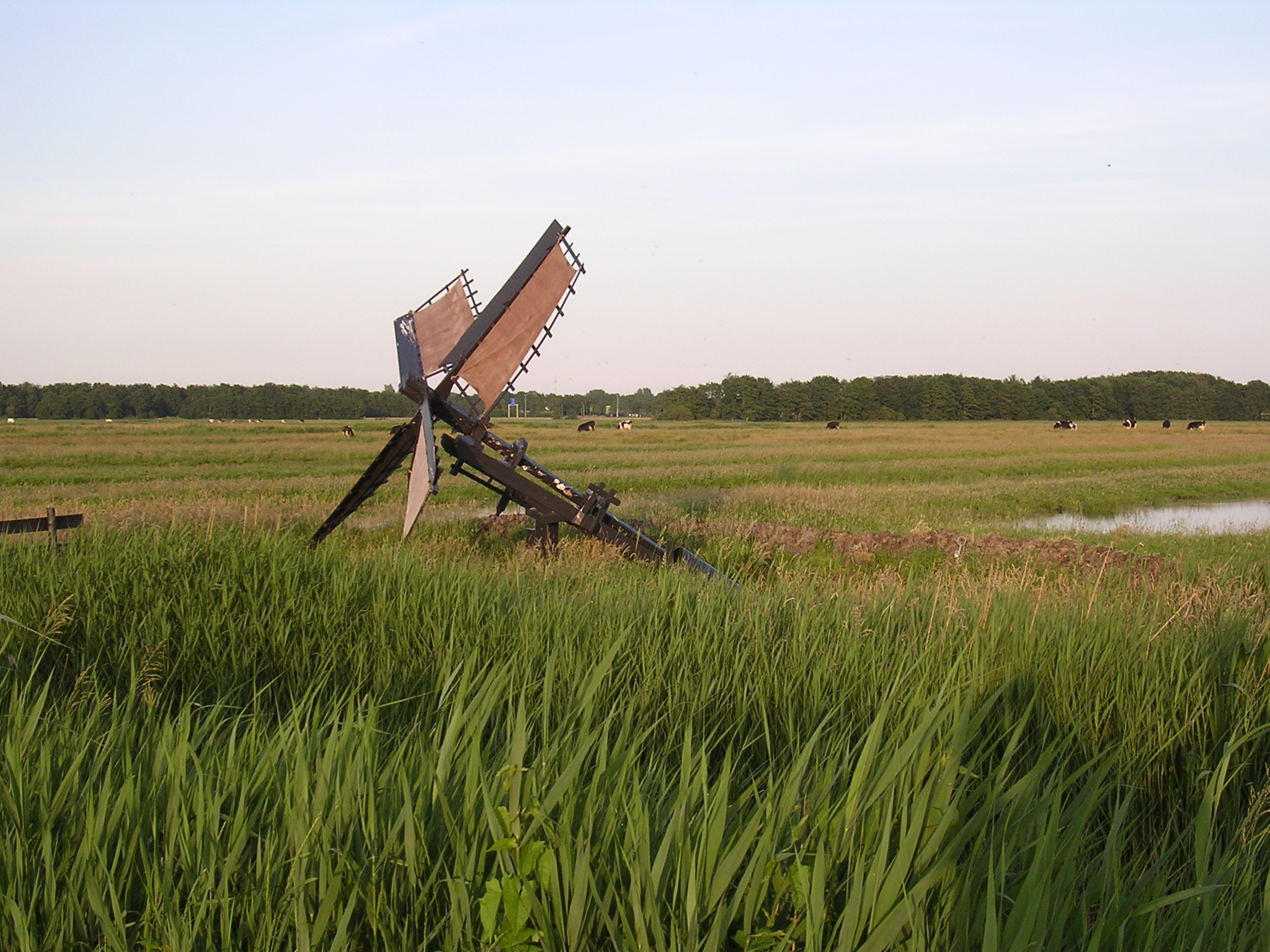 A small windmill, east of the village of Feanwâlden